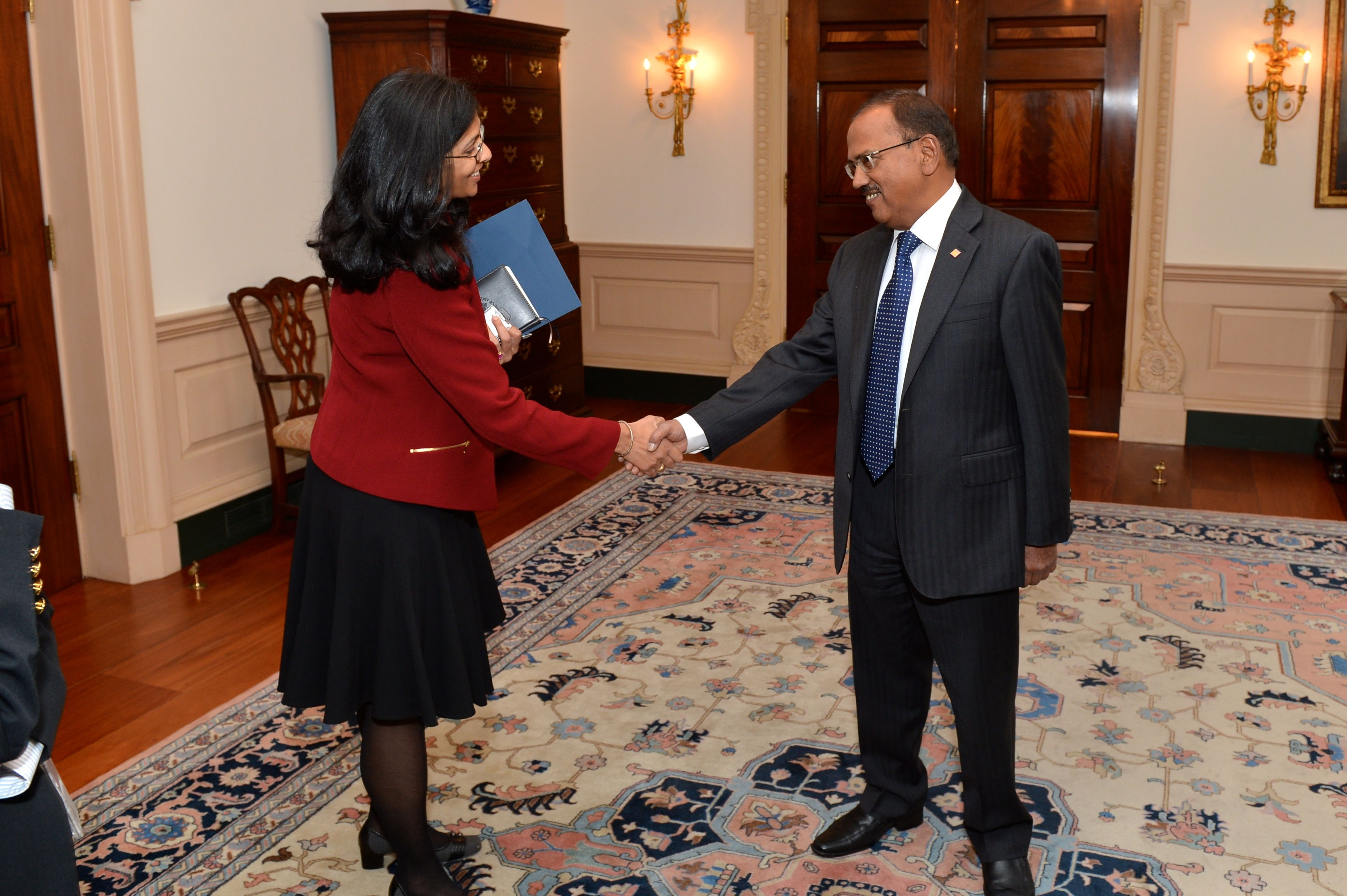 Assistant Secretary of State for South and Central Asian Affairs Nisha Biswal greets Indian National Security Advisor Ajit Doval before his meeting with U.S. Secretary of State John Kerry at the U.S. Department of State in Washington, D.C., on October 2, 2014. [State Department photo/ Public Domain]